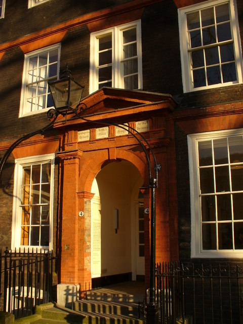 4 King's Bench Walk Sir Christopher Wren designed this and several neighbouring buildings (1677-8). Lawyers' names line the impressive red brick doorways.